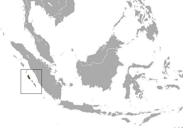 Mentawai Langur (Presbytis potenziani) range